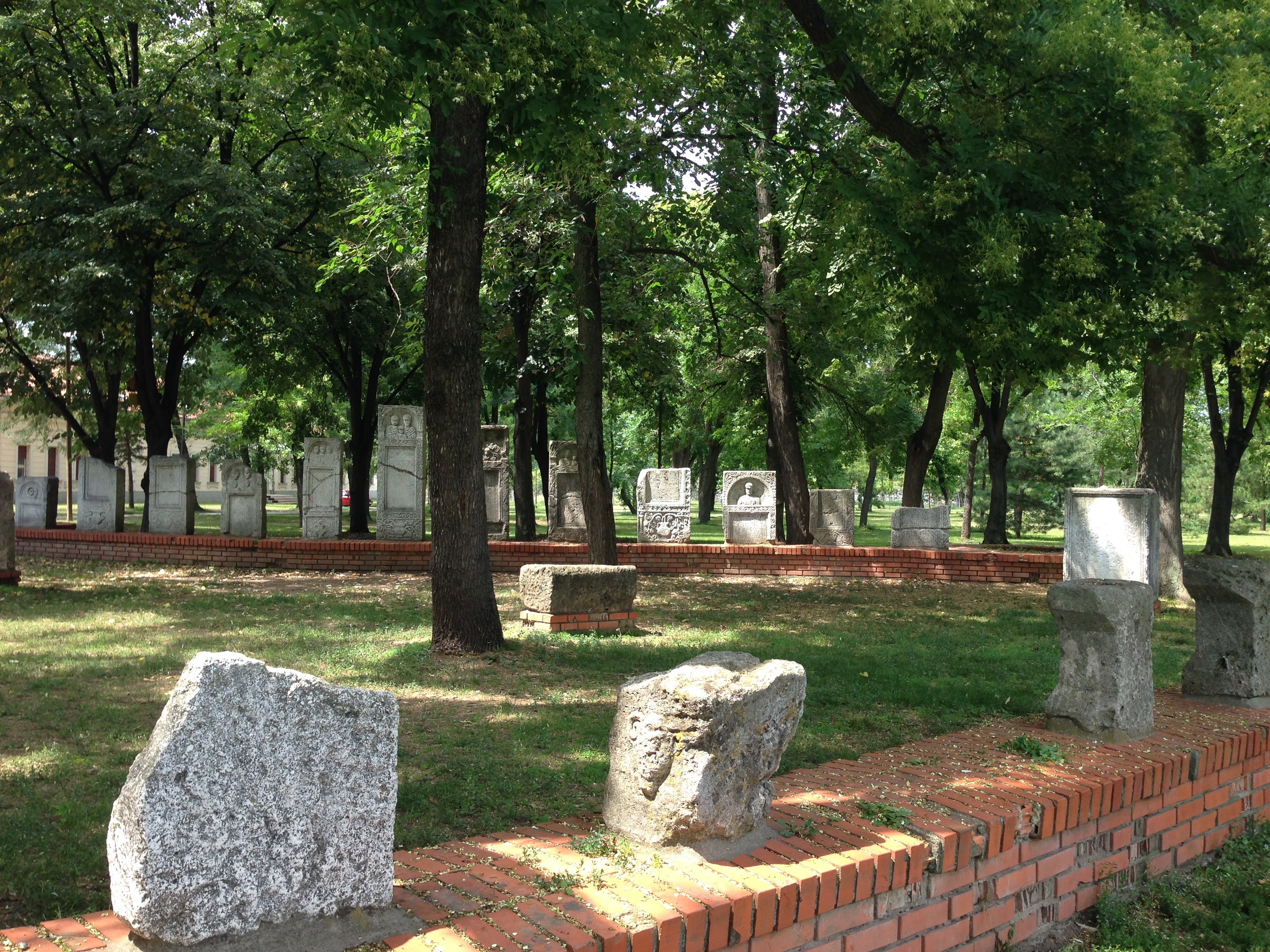 Lapidarium of Niš Fortress. Epigraphic monuments are of particular importance for studying the history of ancient Nais.